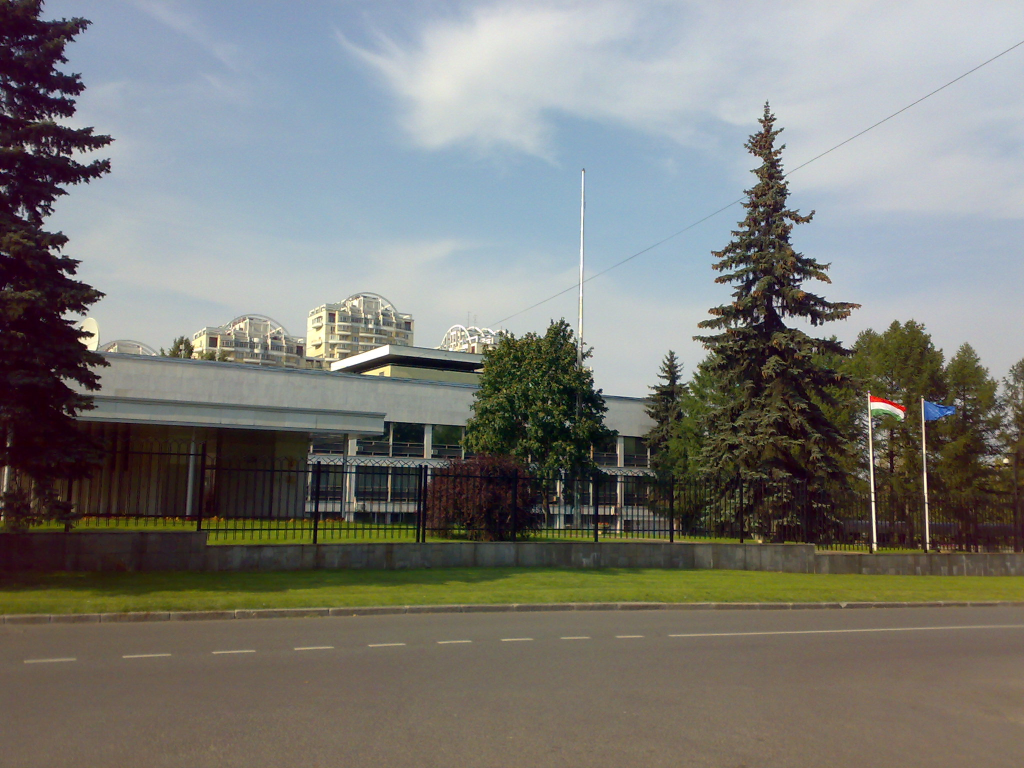 took this image using my mobile phone, on 5 September, 2008. The embassy of Hungary, in Moscow.